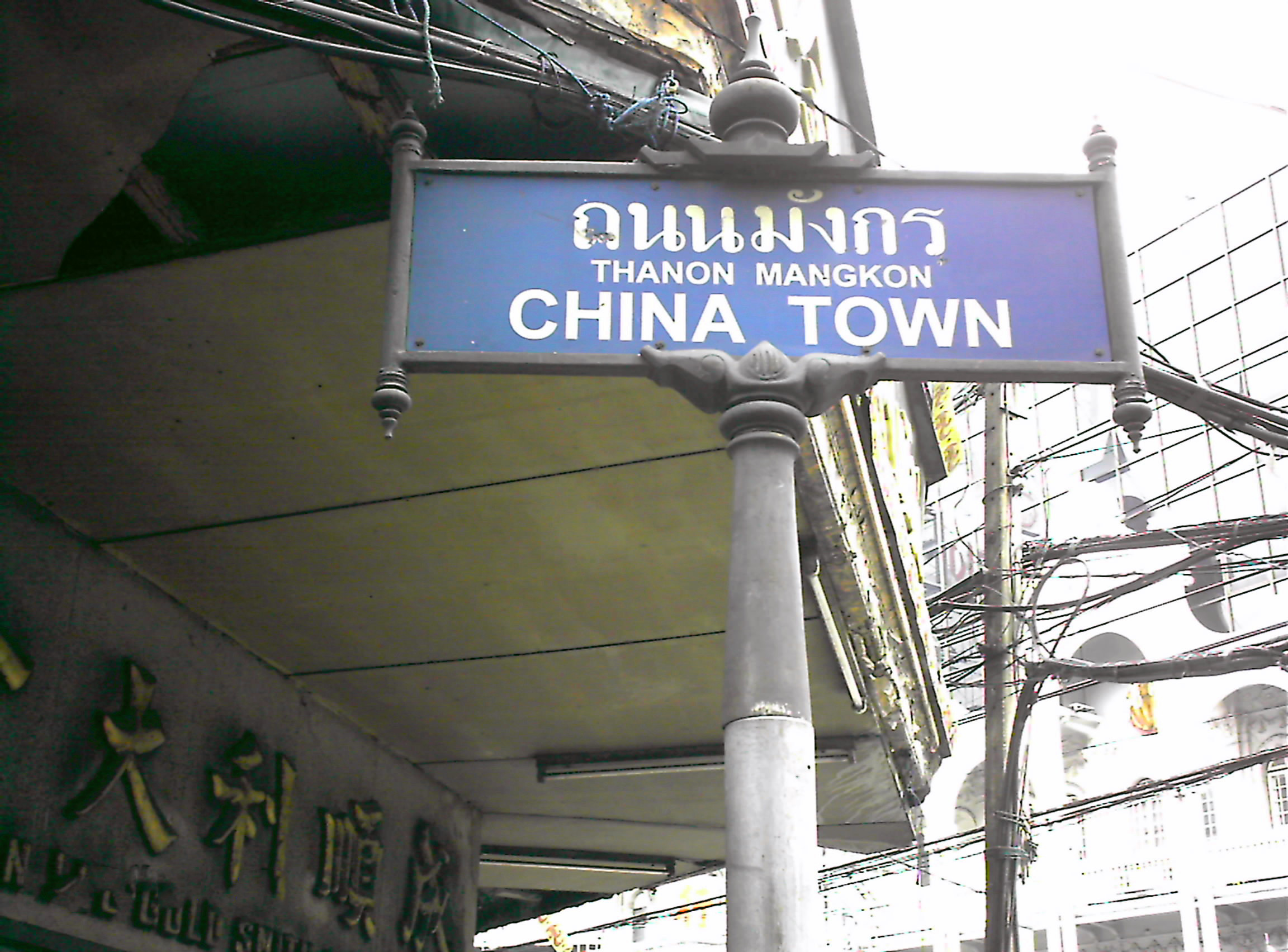 Street Stand of Thanon Mangkon, Bangkok, Thailand 中文（香港）: 泰國 曼谷 演說街 路牌